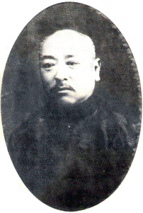 Zhang Ruiji, scholar and official of the late Qing Dynasty.